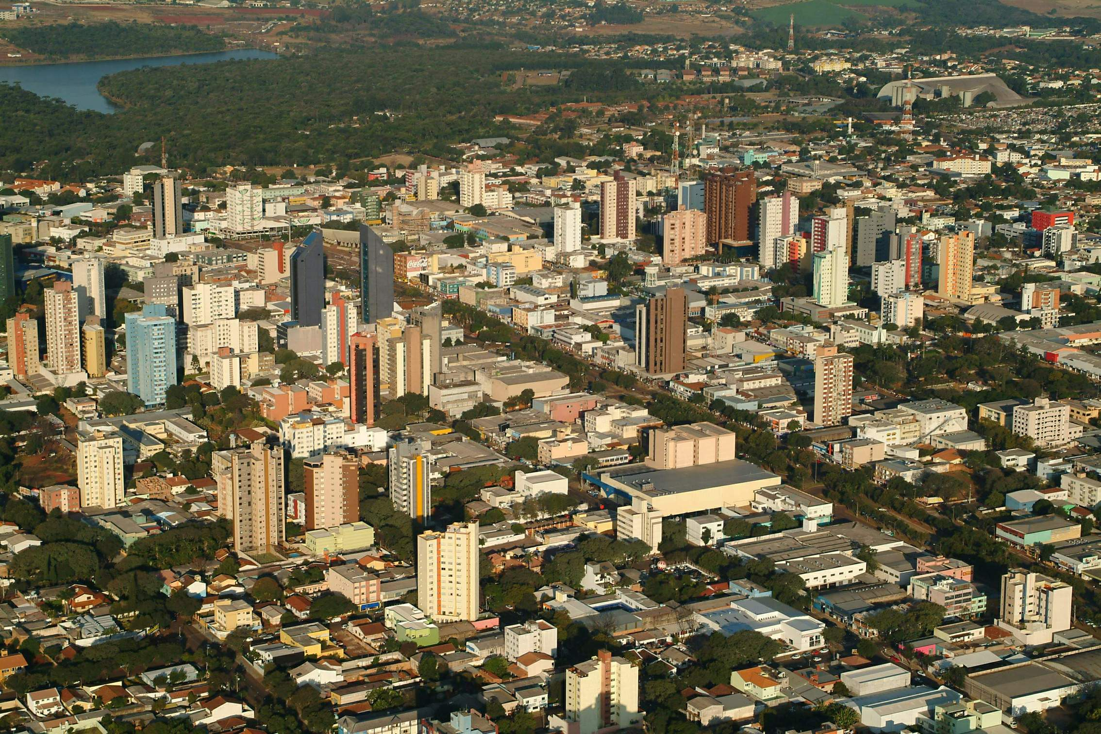 Aerial view of Rattlesnake